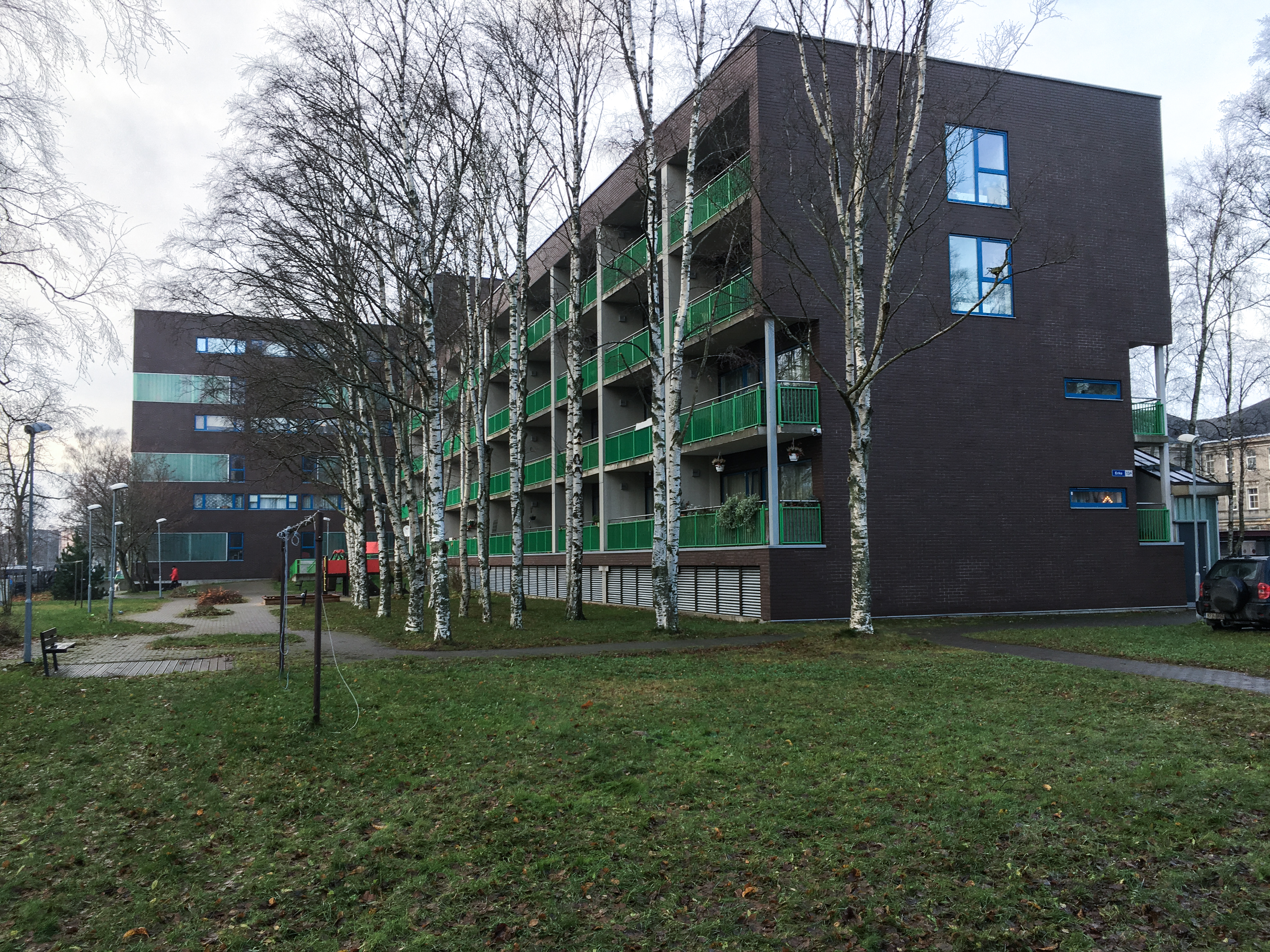 13a Erika Street, Tallinn, Estonia